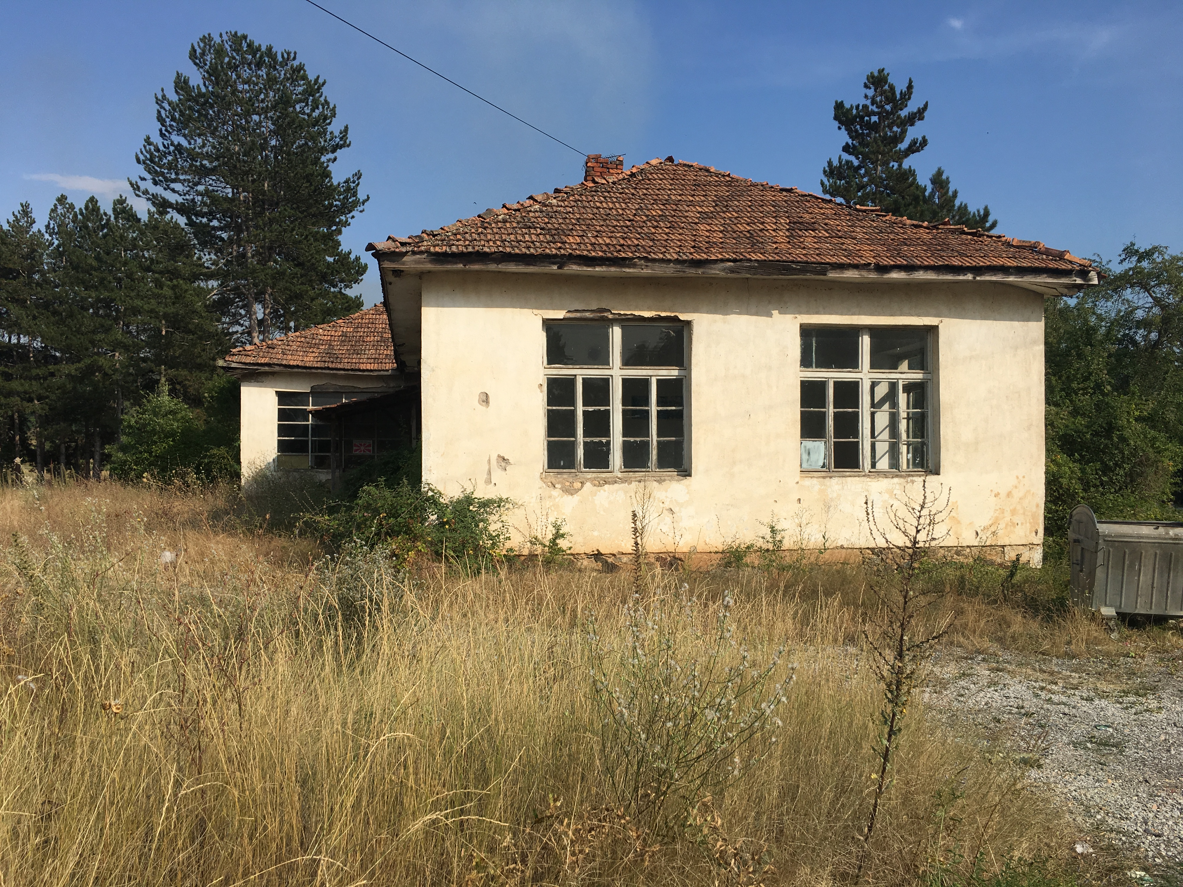 The old school building in the village of Vapila